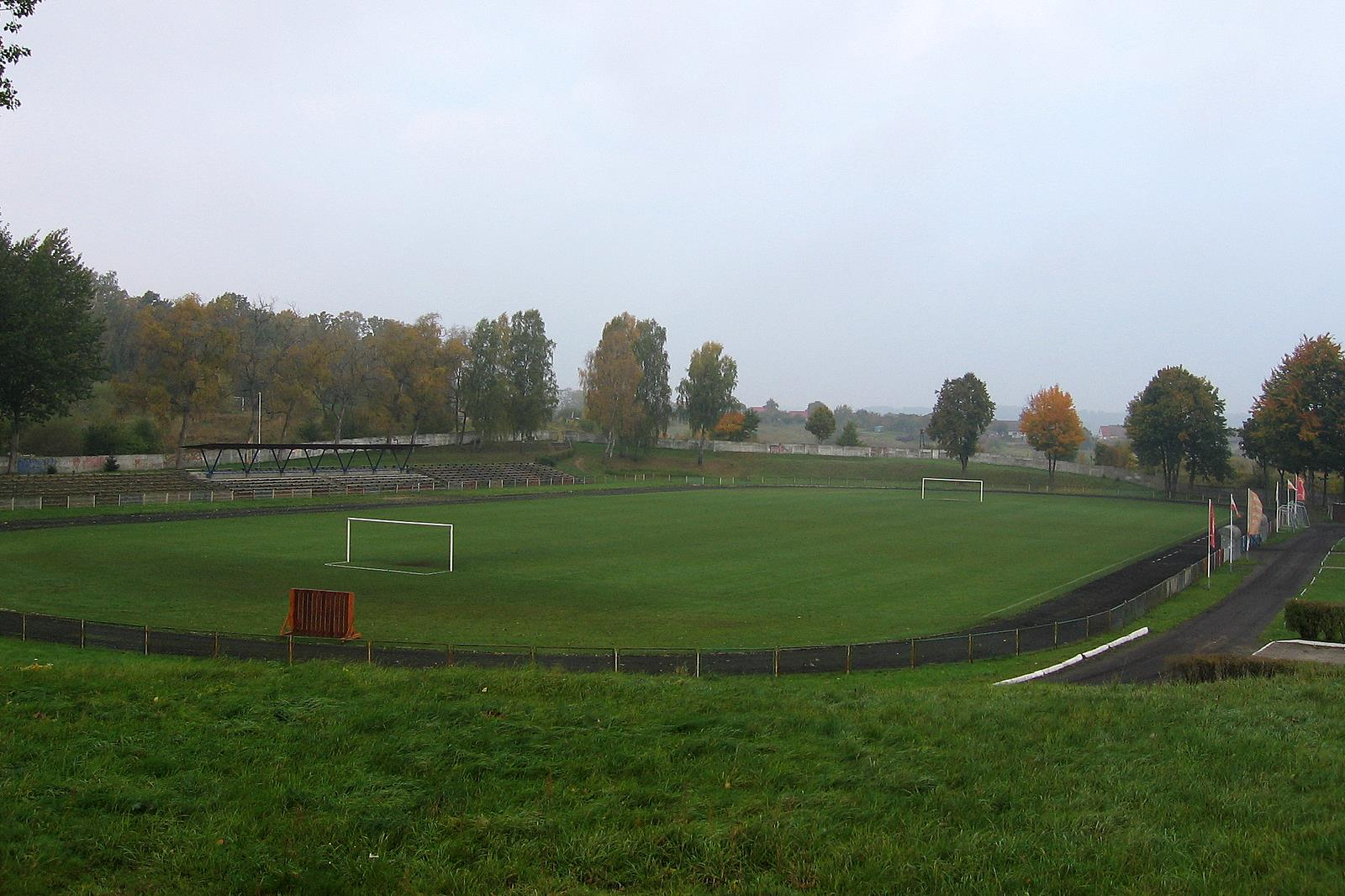 Football pitch in Połczyn-Zdrój, Poland